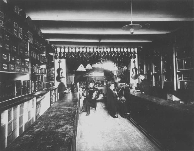 „Jindříšek's Musical Instruments Depot“ in Kiev